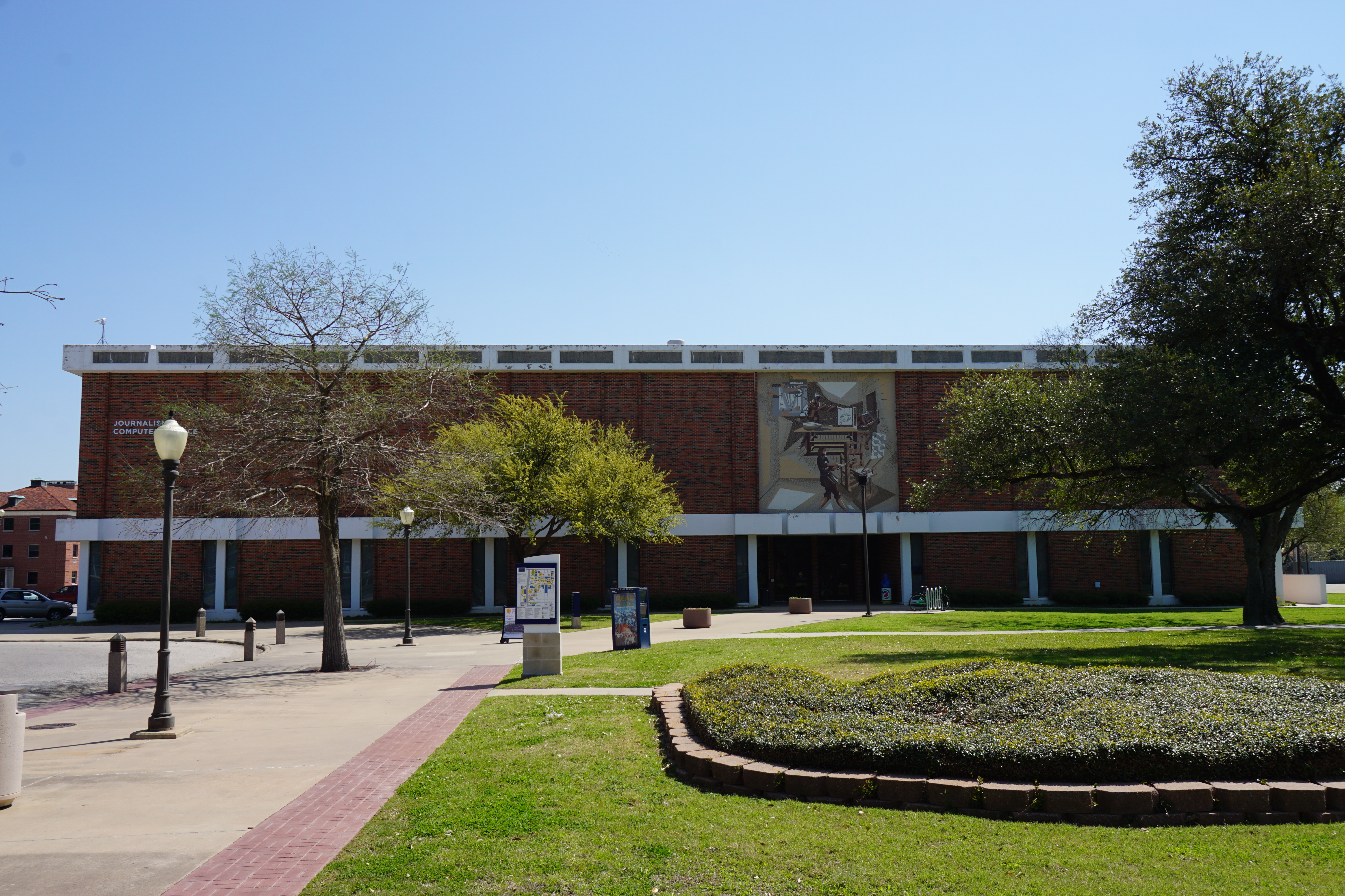 The Journalism Building on the campus of Texas A&M University–Commerce in Commerce, Texas (United States).